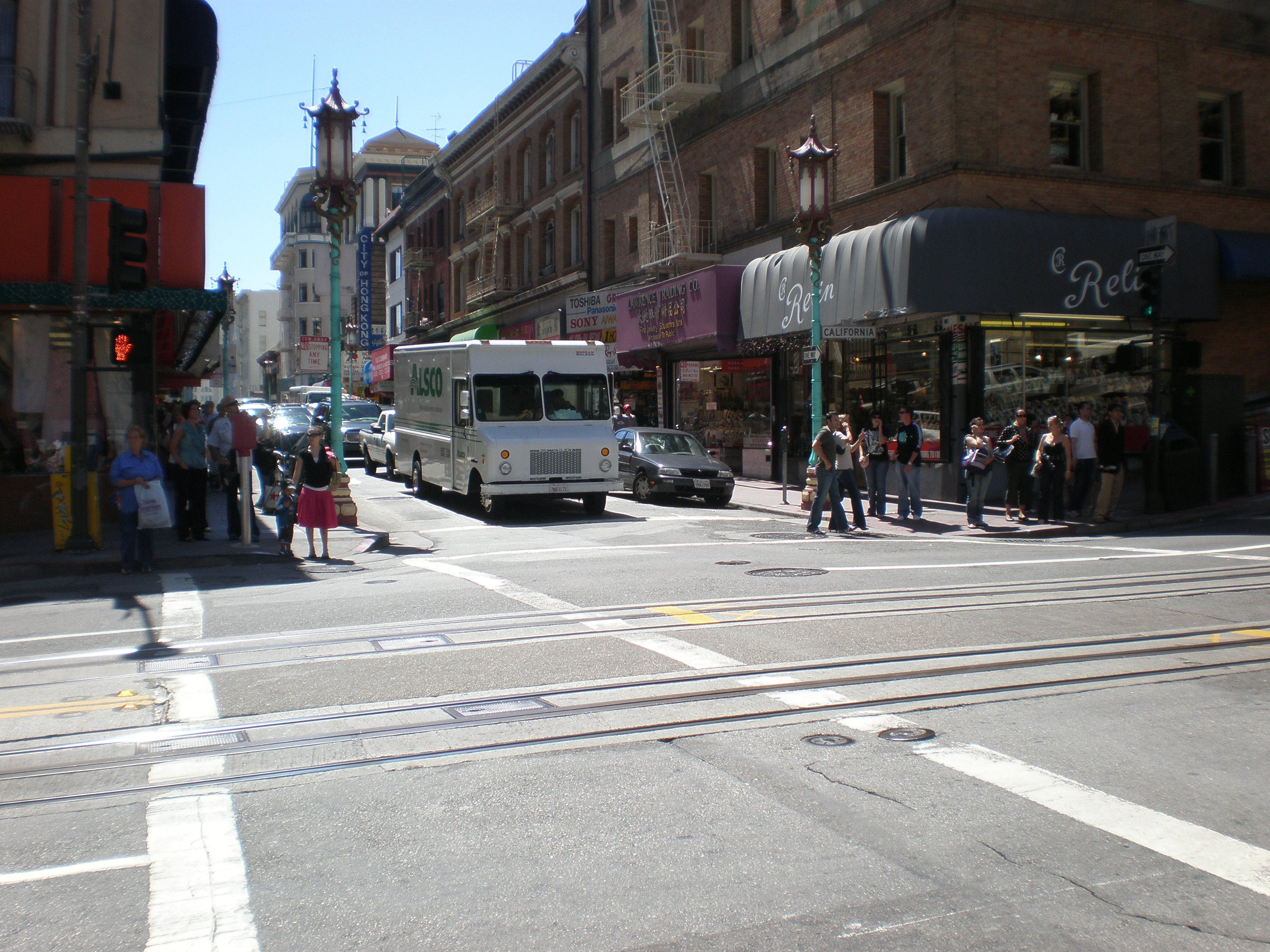 Grant Avenue in Chinatown, San Francisco.